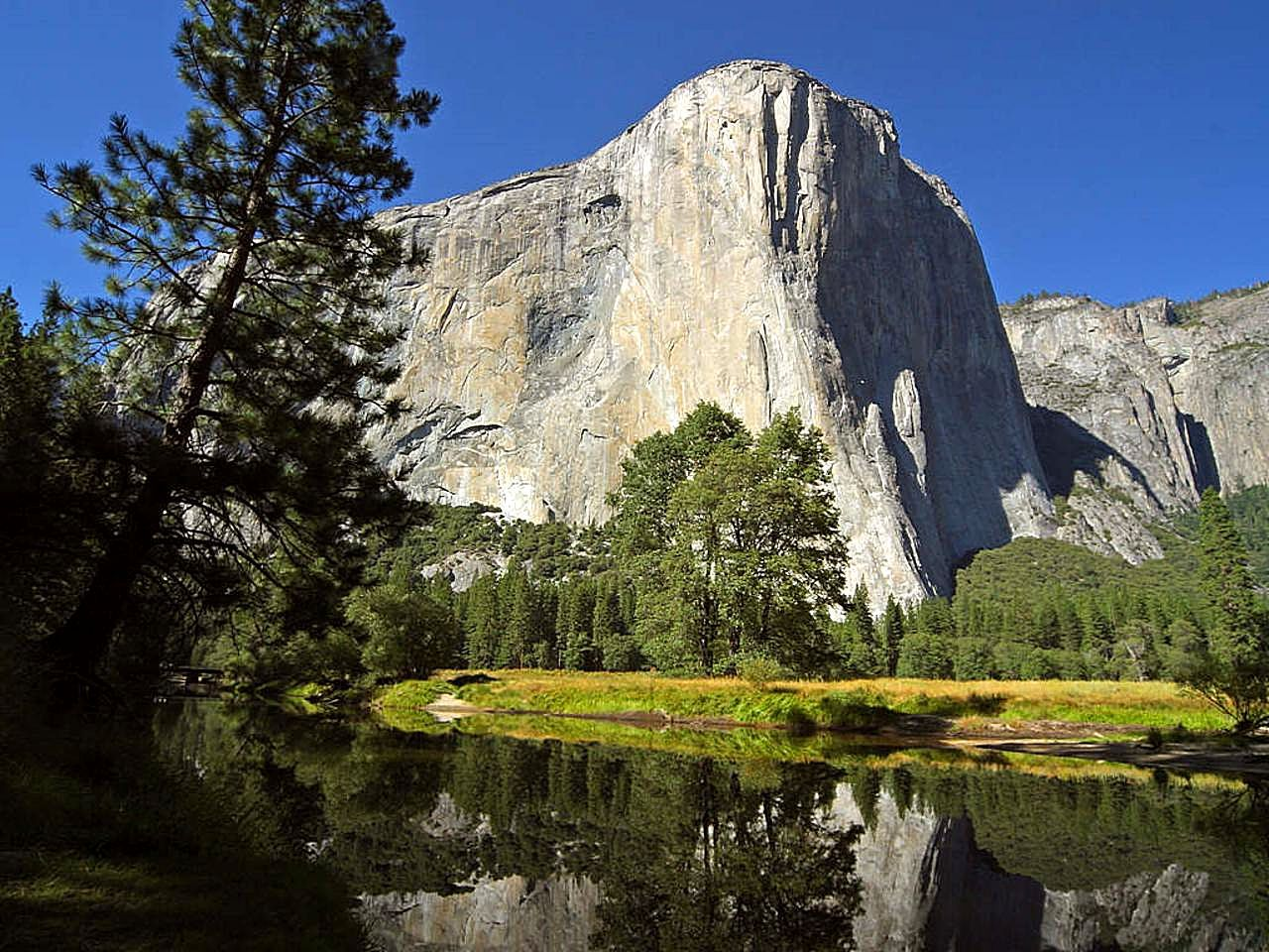 Image title: El capitan and merced river in Yosemite Image from Public domain images website